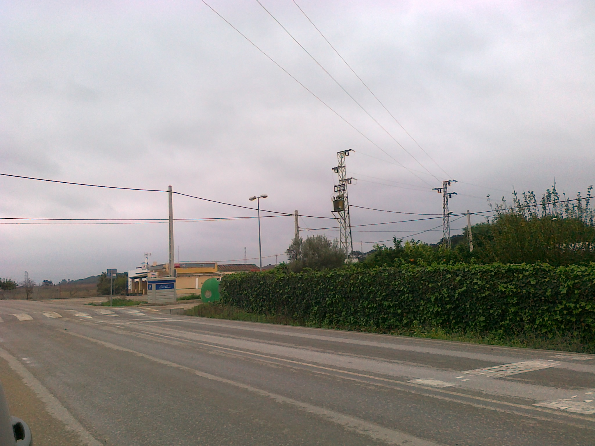 Rajamencera (Jerez)